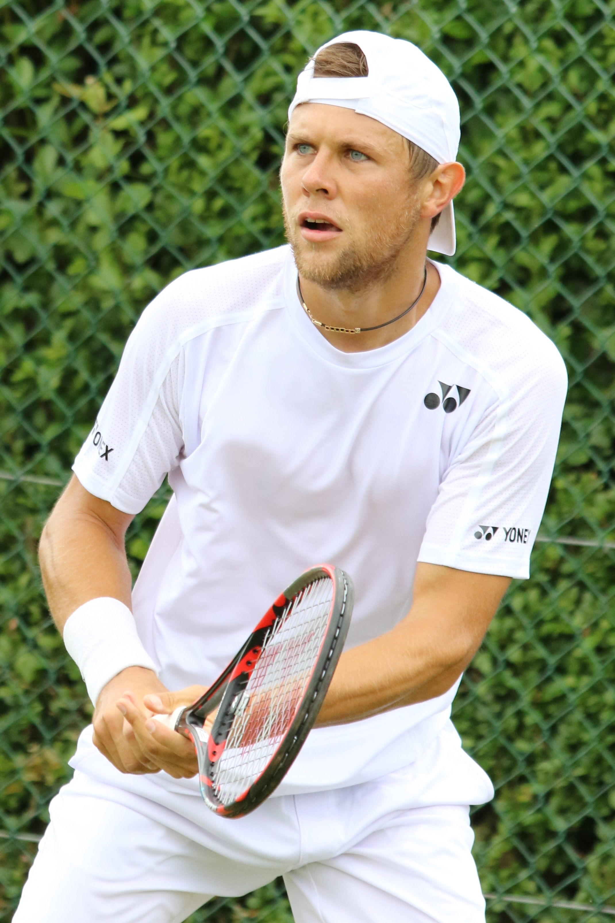 Albot WMQ16 (23)